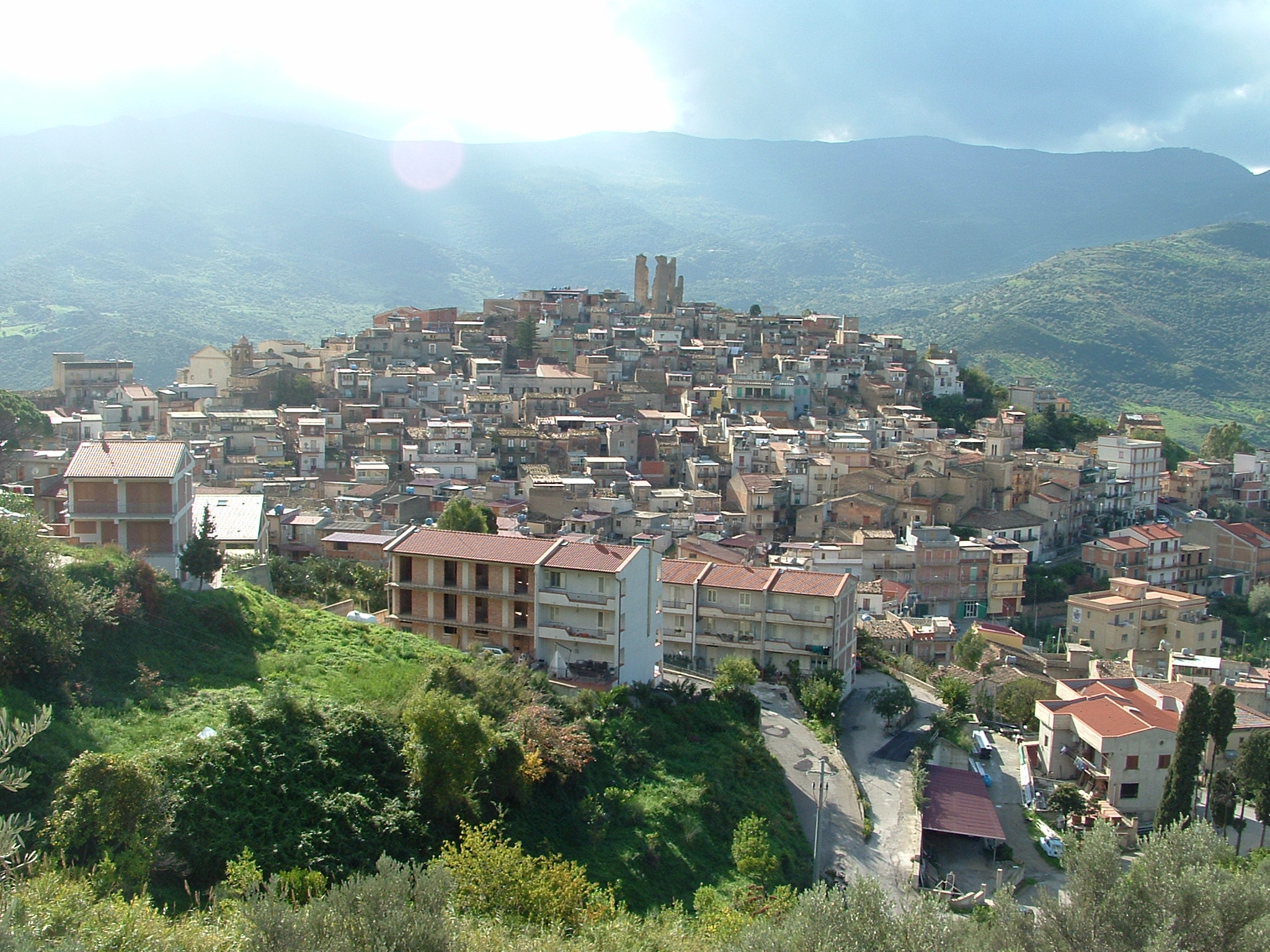 Panorama of Pettineo, Province of Messina, Sicily, Italy